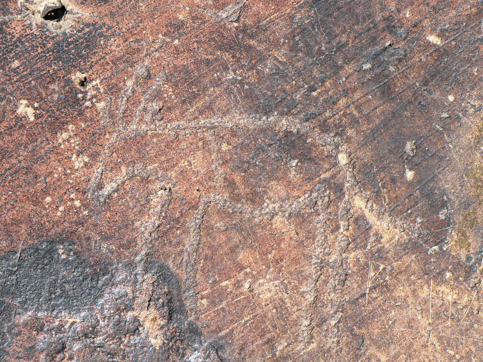 This media shows a South African Protected Site with SAHRA file reference 9/2/049/0105.